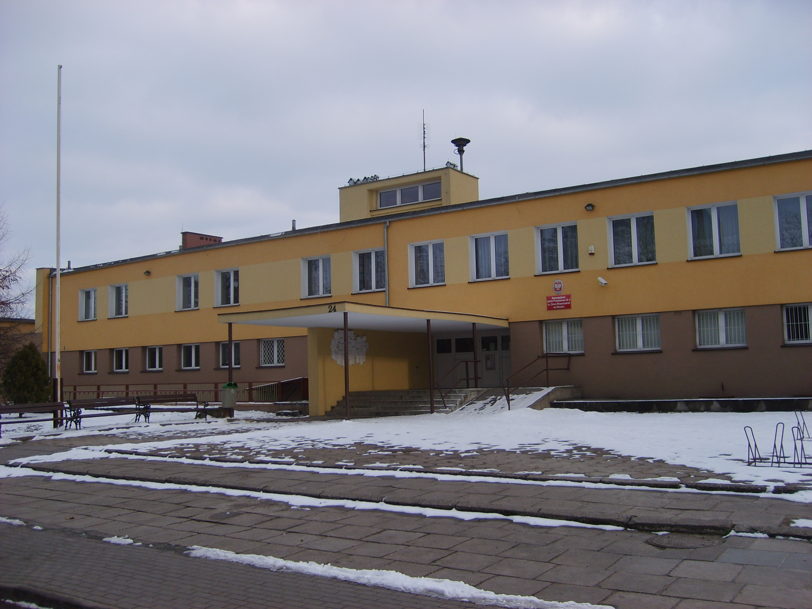 Elementary School No. 2 name of Wrzesnia's children in Września